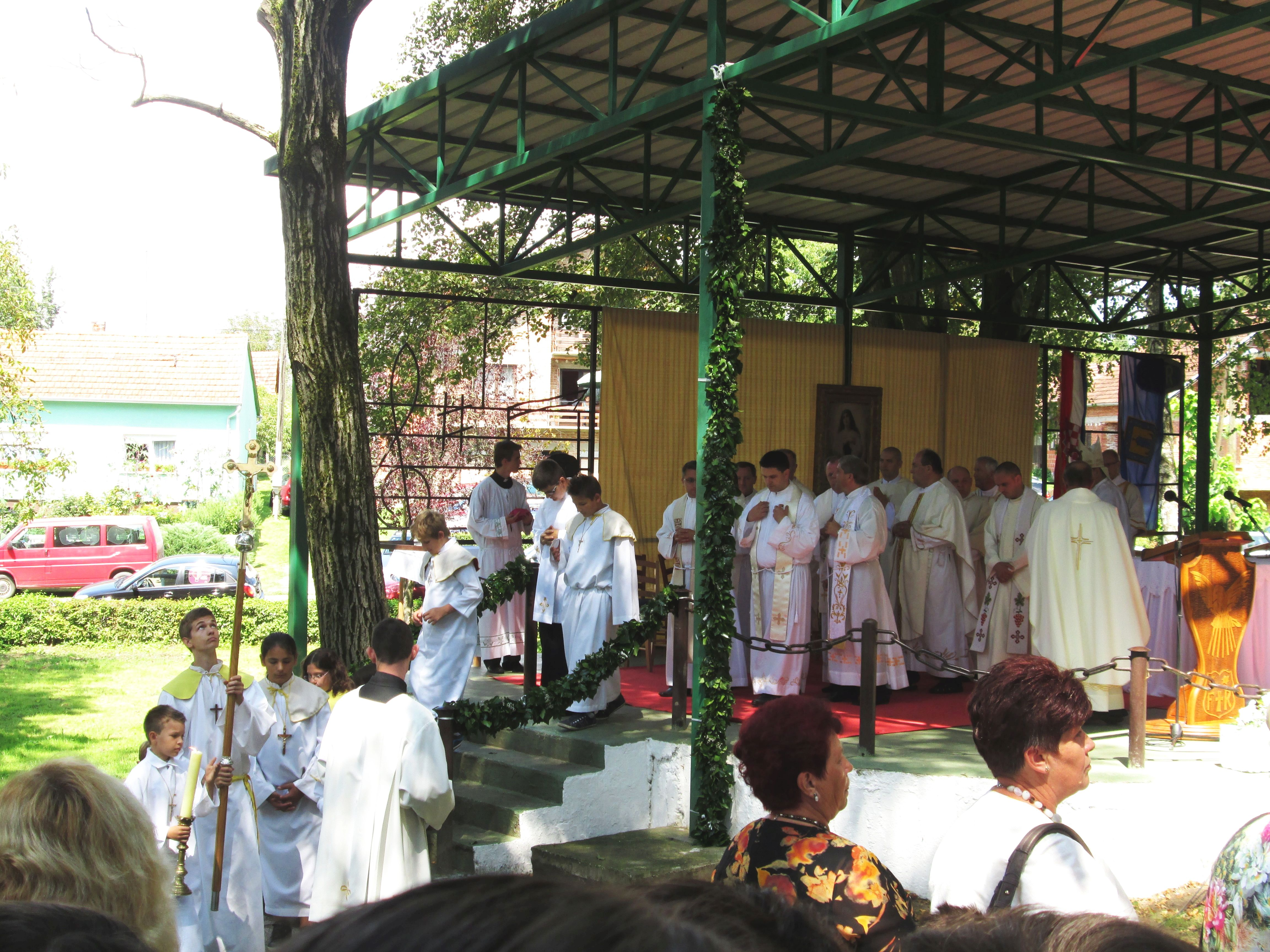 Catholic Mass in Nova Rača, Croatia